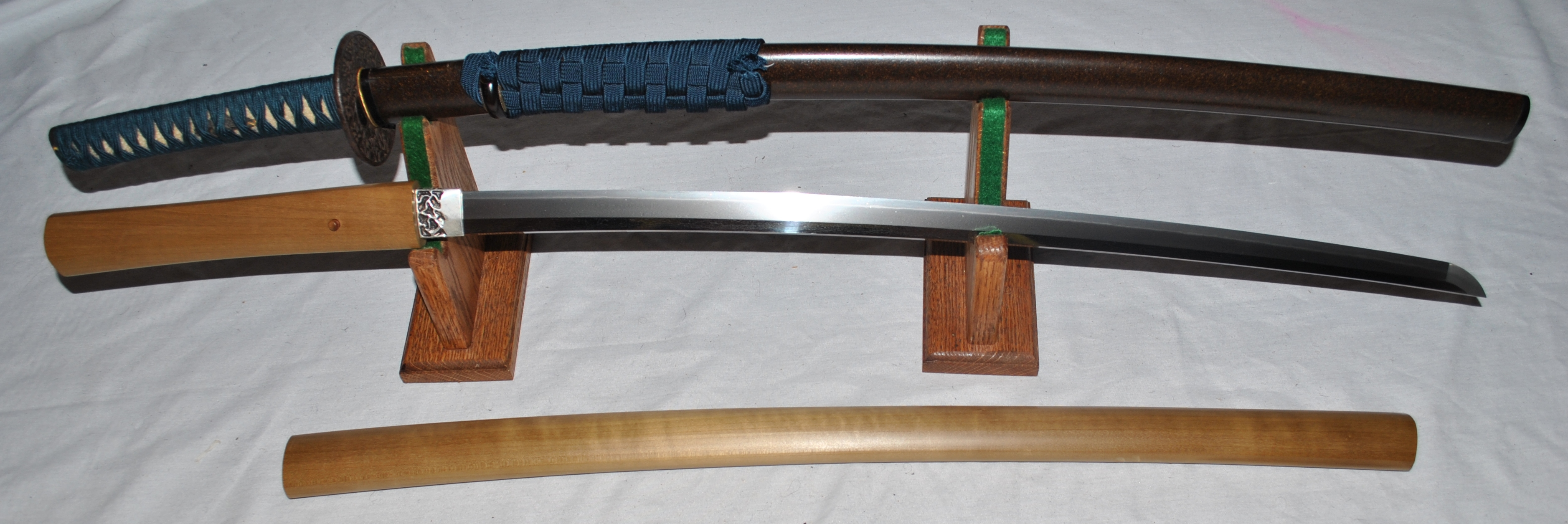 Antique Japanese (samurai) katana with koshirae and shirasaya, this katana is in yamato style siged as (mei): HEIANJO FUJIWARA, shinto 1600s.